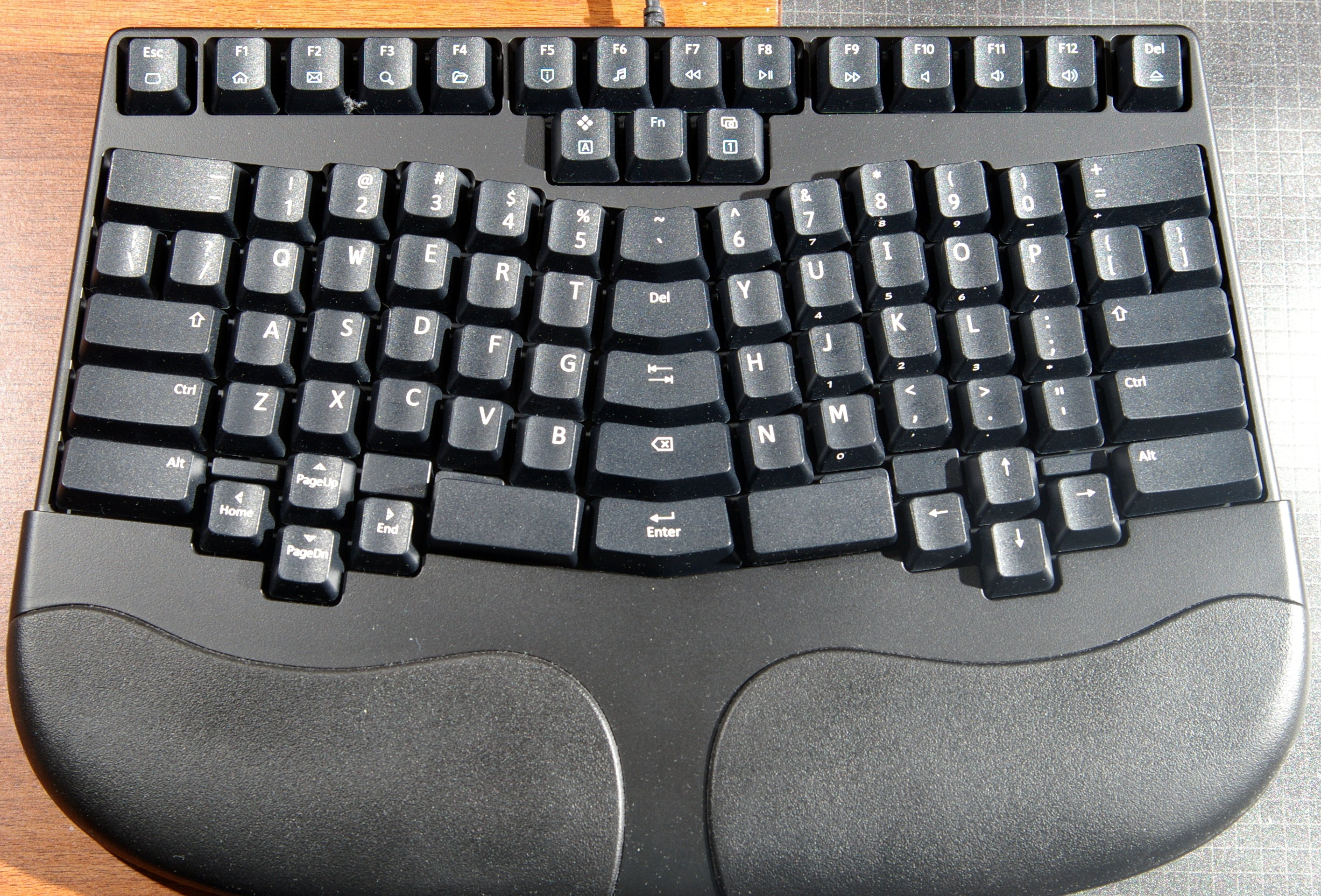 A "Truly Ergonomic Keyboard" brand ergonomic keyboard. The wrist rest is removable.